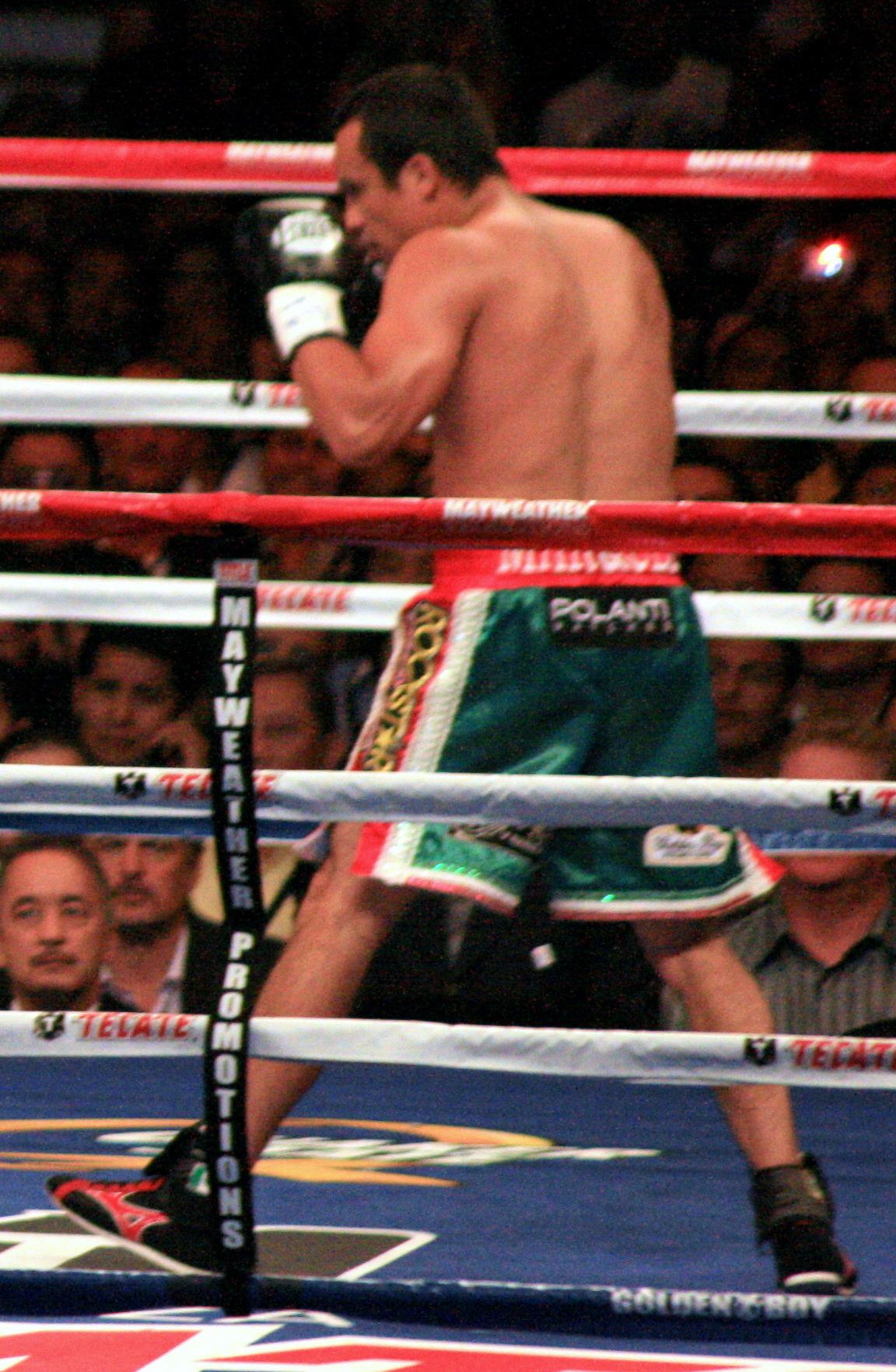 Juan Manuel Márquez at the MGM Grand Garden Arena in Paradise, Nevada, on September 19, 2009.